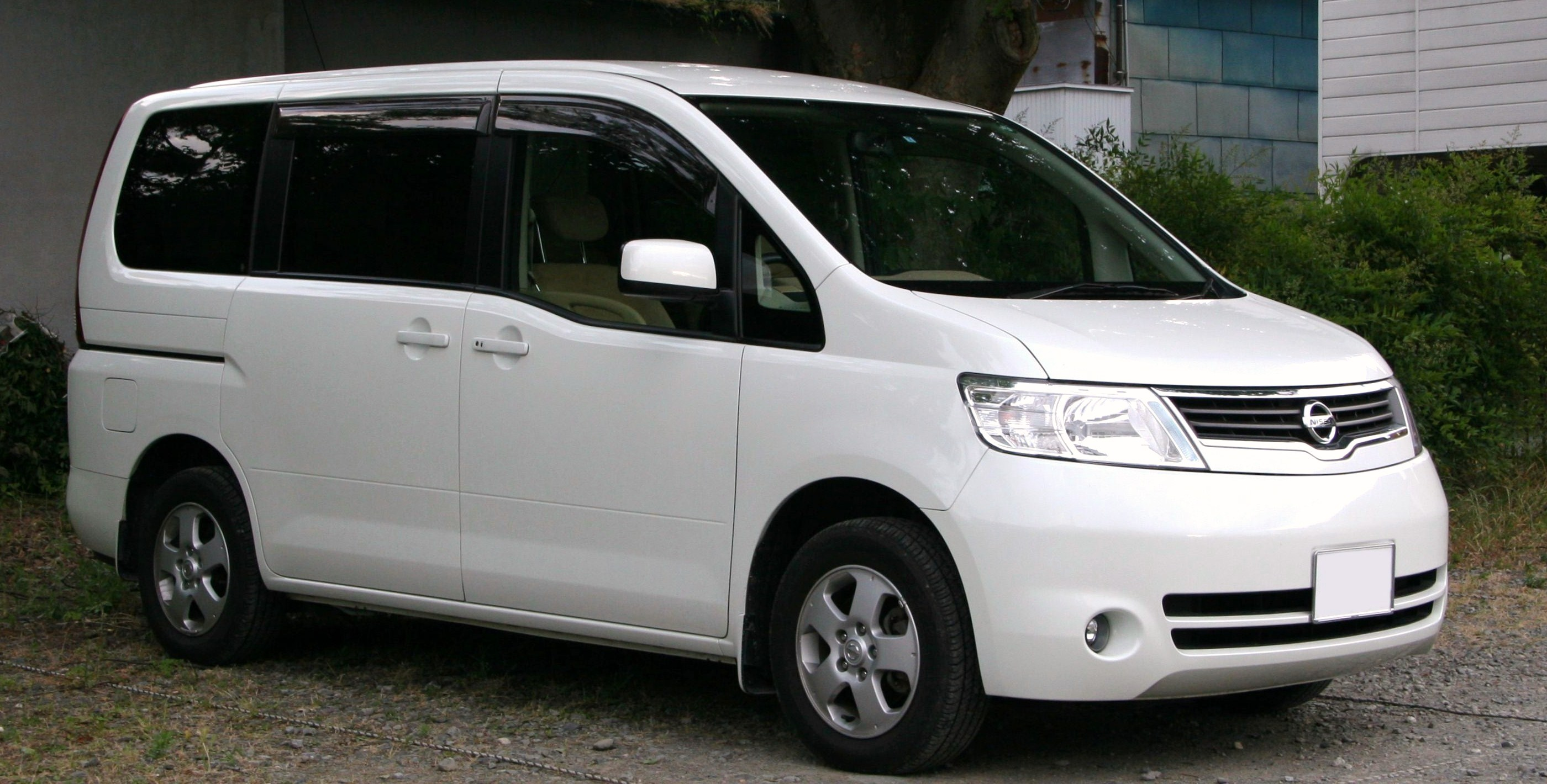 NISSAN SERENA